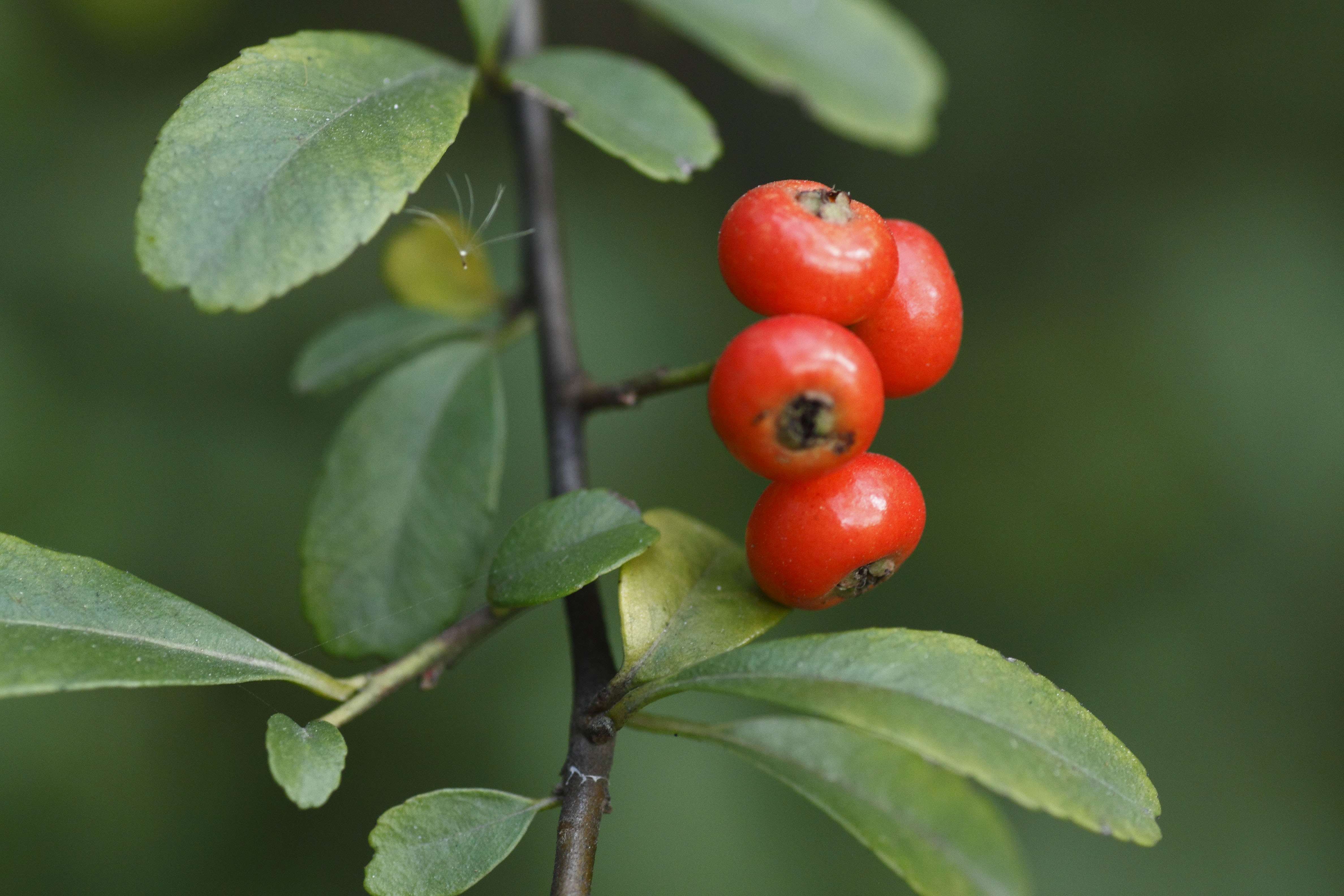 Pyracantha fortuneana